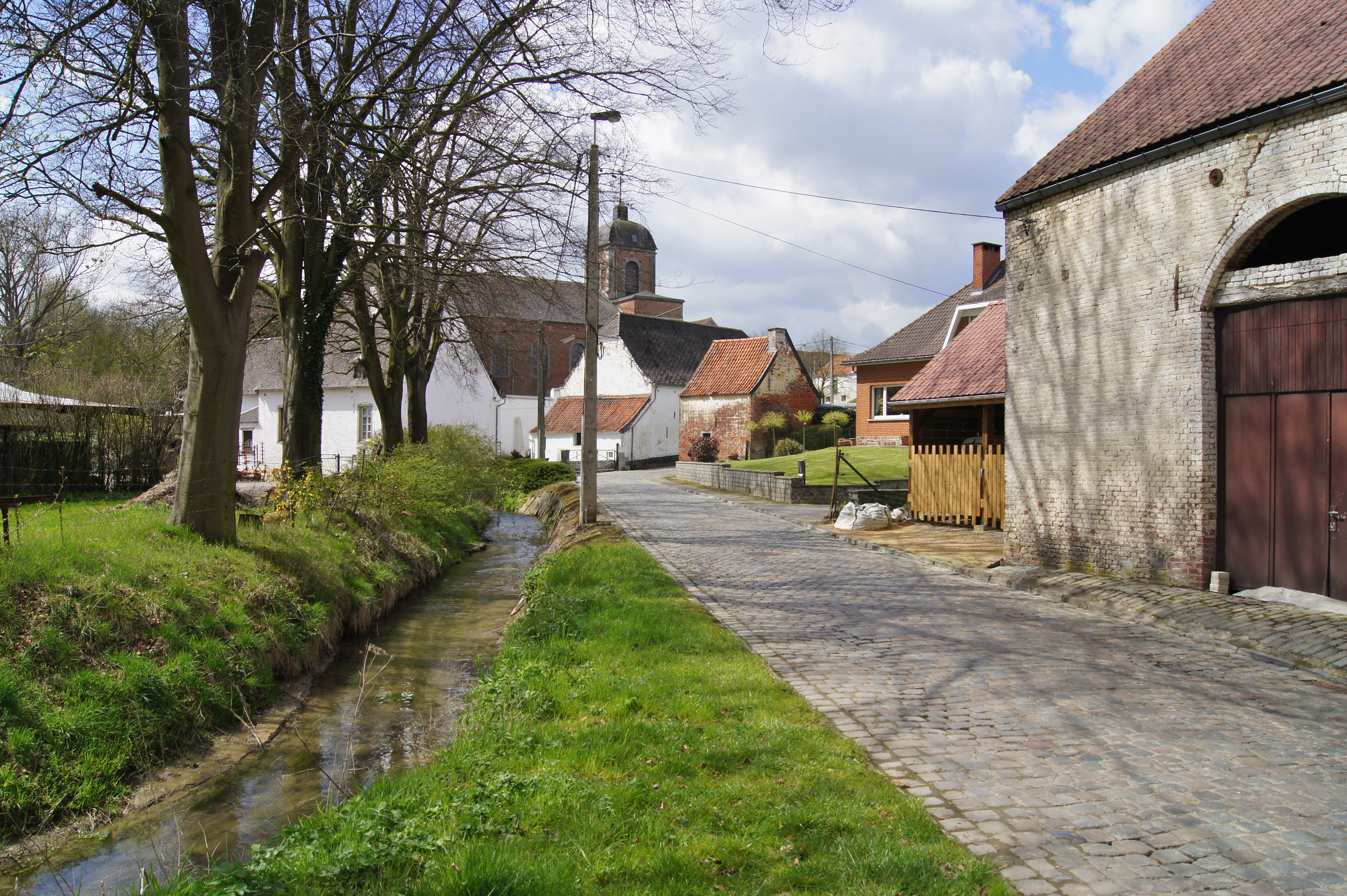 Genappe (Loupoigne), Belgium: Panorama and the river Dijle